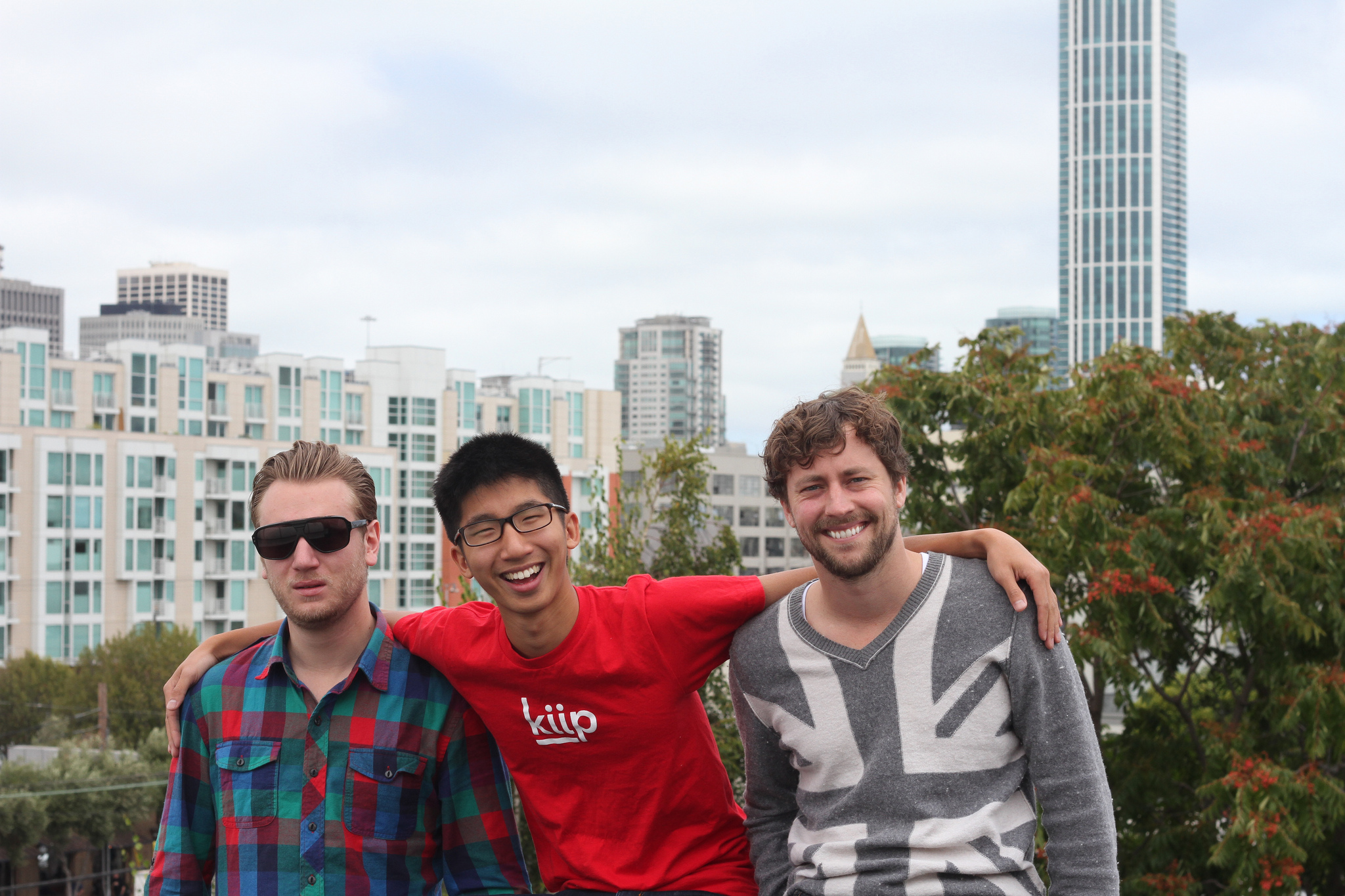 This is an image of the Kiip founders